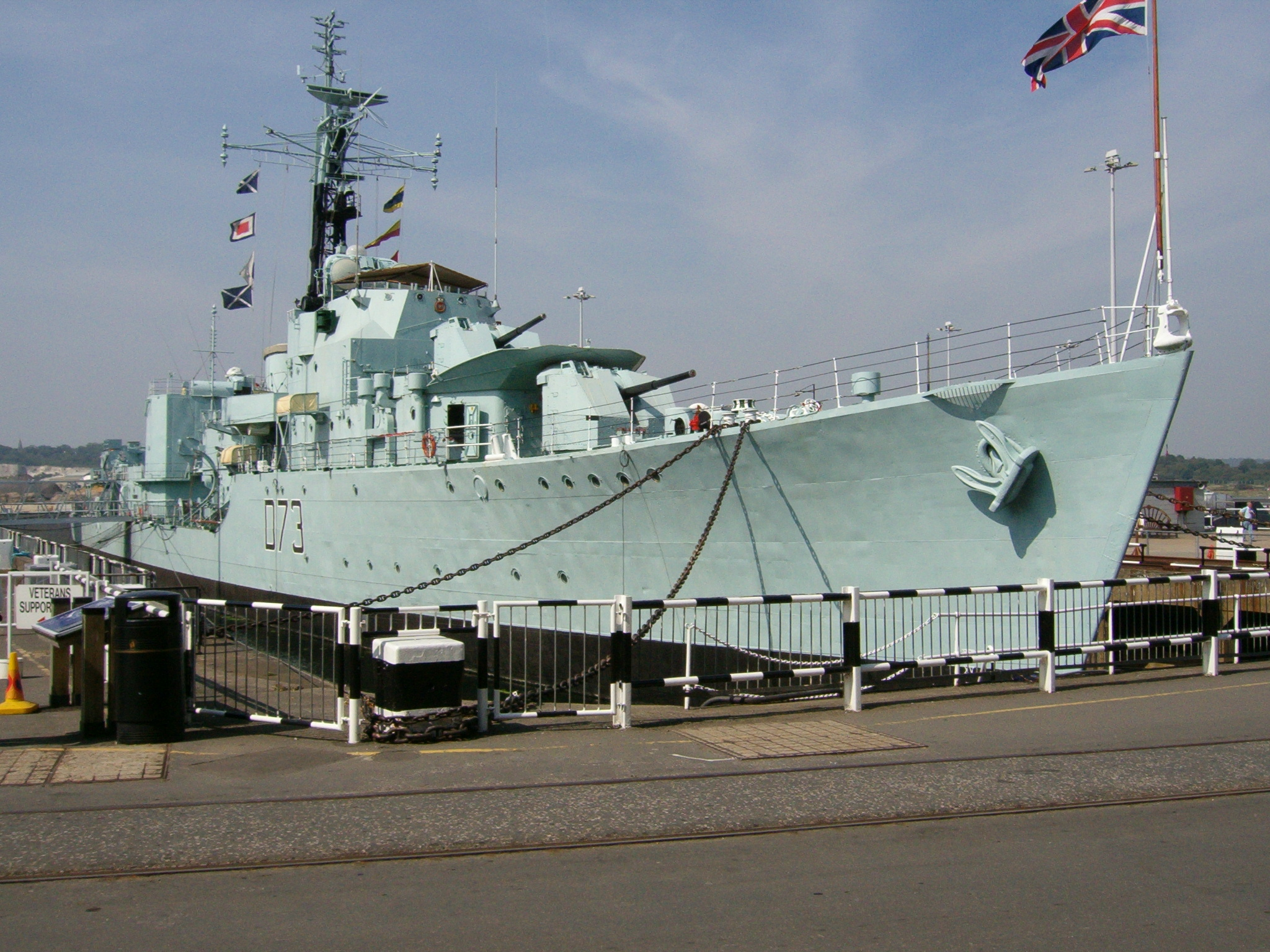 Photograph of HMS Cavalier taken at Chatham Dockyards, Kent, UK